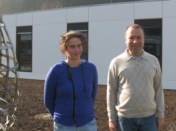 Description at MFO: On the Photo: * Schilling, Anne (left) * Lenart, Cristian (right) * Occasion:Research in Pairs 2011 * Location: Oberwolfach * Author: Schmid, Renate (photos provided by Schmid, Renate) * Source: MFO * Year: 2011 * Copyright: MFO * Photo ID: 13784